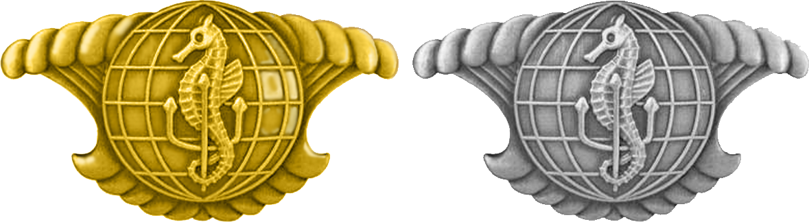 Image of Integrated Undersea Surveillance System insignia used in the US Navy. For use in USN articles concerning awards.